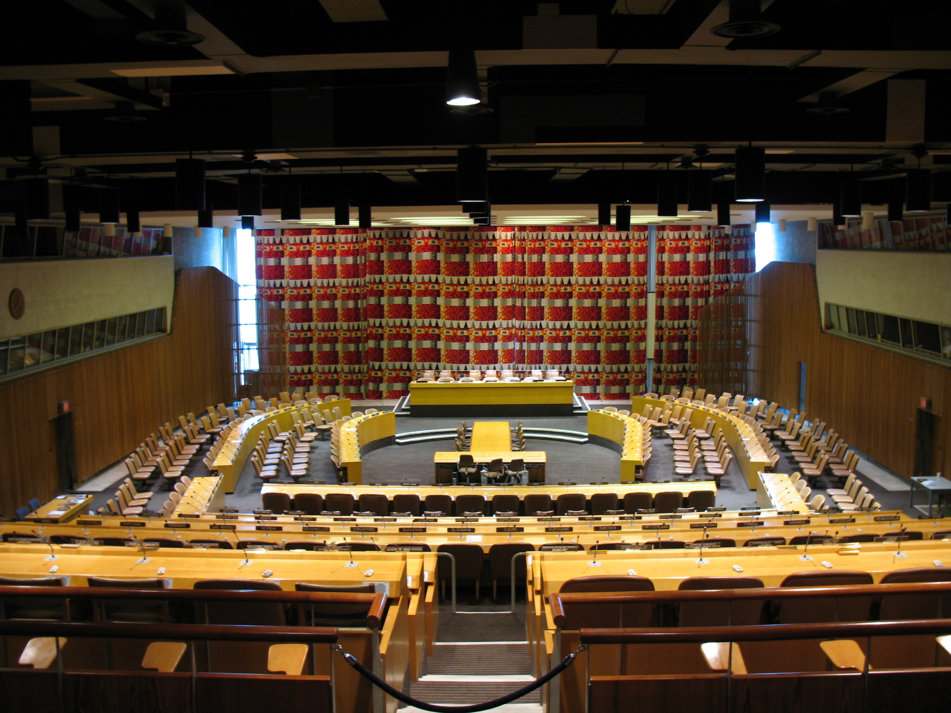 The room of the UN Economic and Social Council. The UN headquarters, New York. Architect: Sven Markelius.